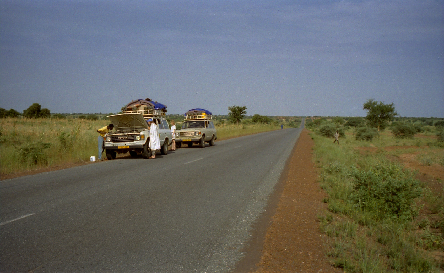 Some vehicle trouble out in the countryside.